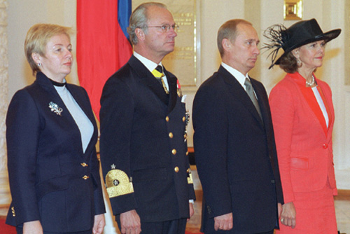 THE KREMLIN, MOSCOW. Vladimir and Lyudmila Putina welcoming King Carl XVI Gustaf and Queen Silvia of Sweden.